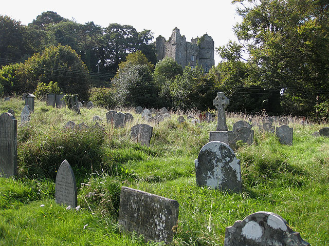 Newport Castle seen from St Mary's churchyard, near Newport, Pembrokeshire, Wales. The castle was built by William fitz Martin at the end of the 12th century. The castle once comprised a massive gatehouse flanked by a circular dungeon tower to the southwest and the Hunter's tower to the northwest. A large D-shaped tower was built to protect the vulnerable southeast side. The gatehouse was converted to use as a private residence by the Lloyds of Bronwydd in 1859.[1]